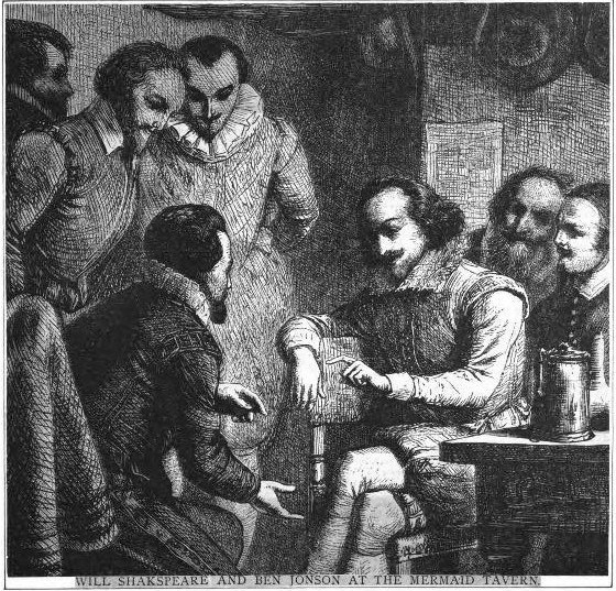 cropped illustration of a picture depicting Ben Jonson and Shakespeare at the Mermaid Tavern